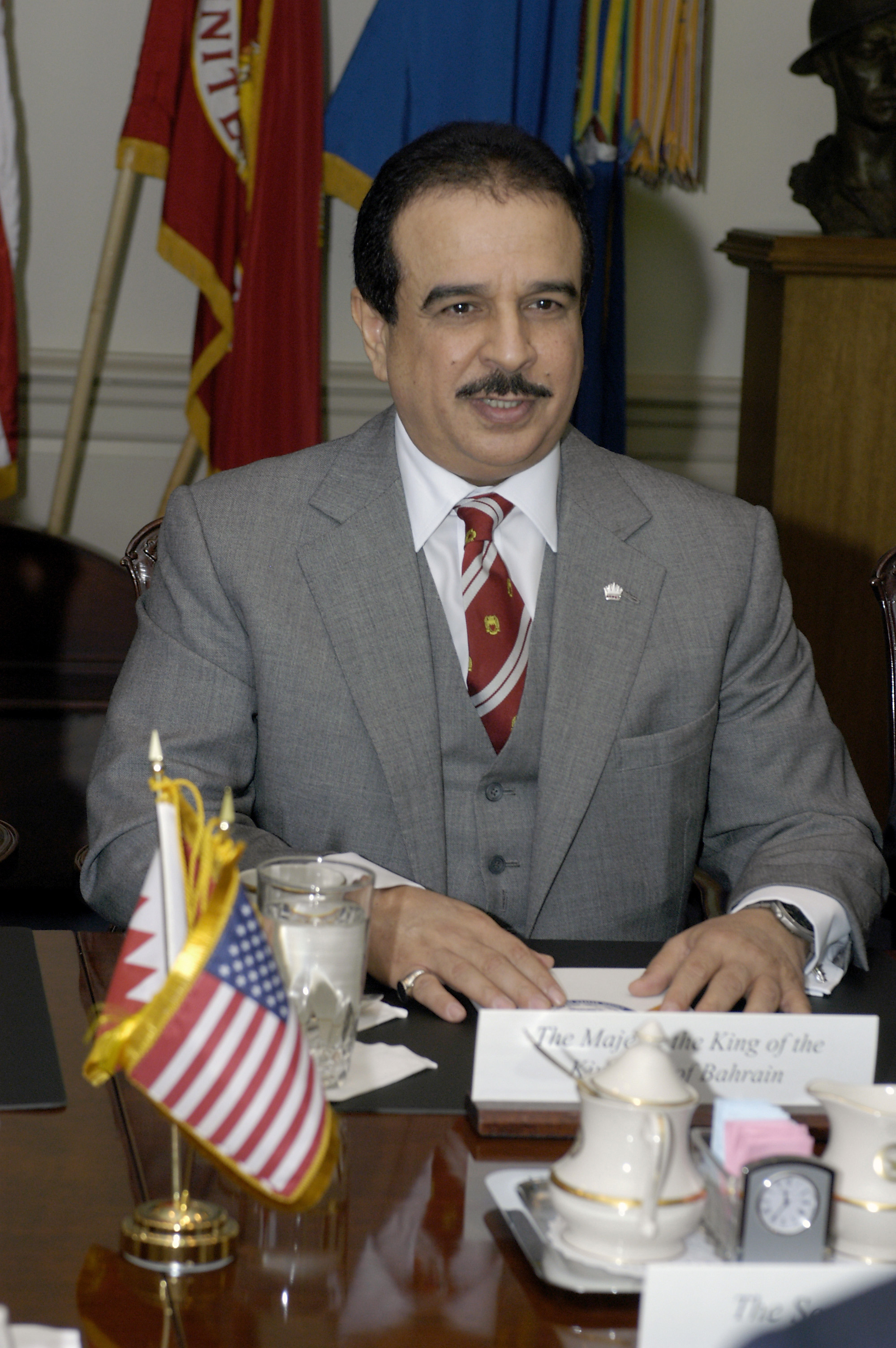 King of Bahrain Shaikh Hamad bin Isa Al Khalifa meets with Secretary of Defense Donald H. Rumsfeld in the Pentagon on Nov. 29, 2004. Khalifa and Rumsfeld are meeting to discuss defense issues of mutual interest.